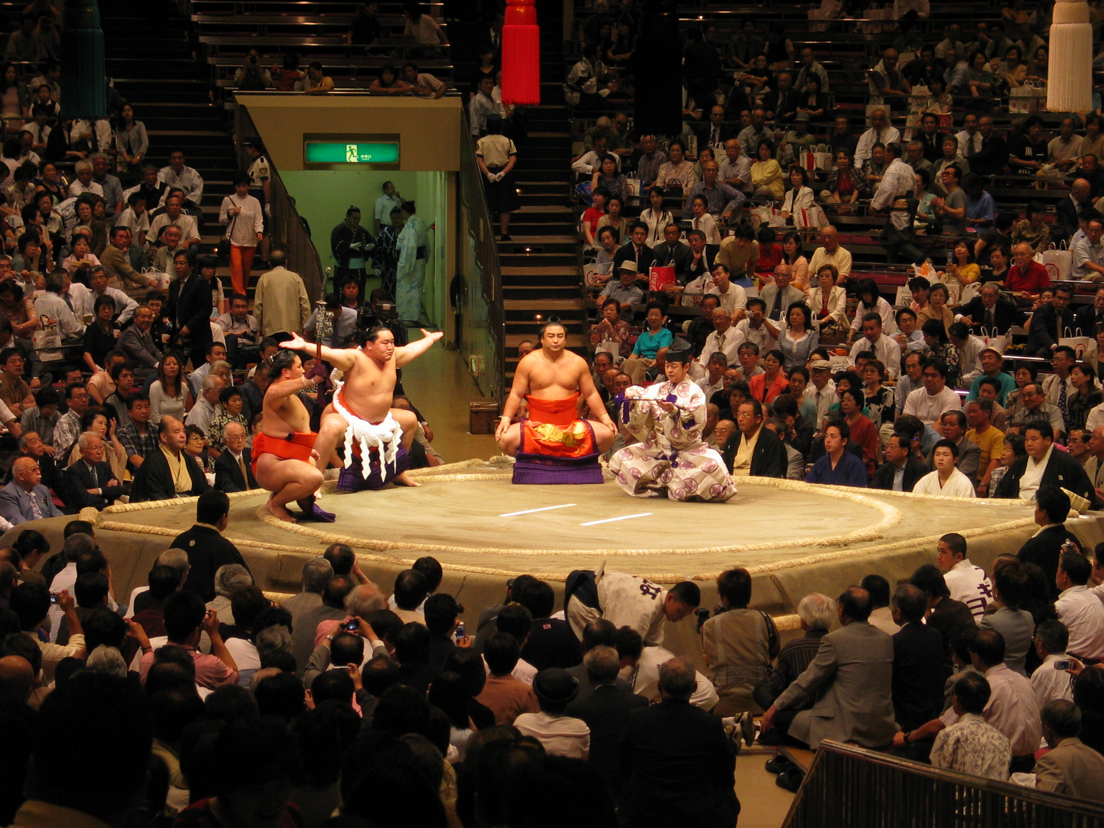 A dohyo-iri ceremony being performed in the Kokugikan sumo arena in Ryogoku, Tokyo, Japan.